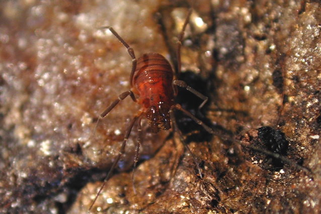 Bishopella laciniosa from the Appalachians.